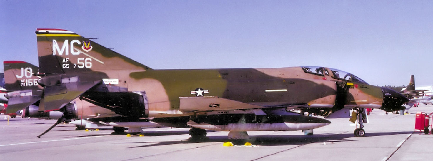 63d Tactical Fighter Squadron - McDonnell F-4D-28-MC Phantom 65-0756 to AMARC as FP0313 Sept 29, 1989. Noted September 2003 outside school at Dyess AFB, TX. Seen back at AMARC Jan 15, 2008